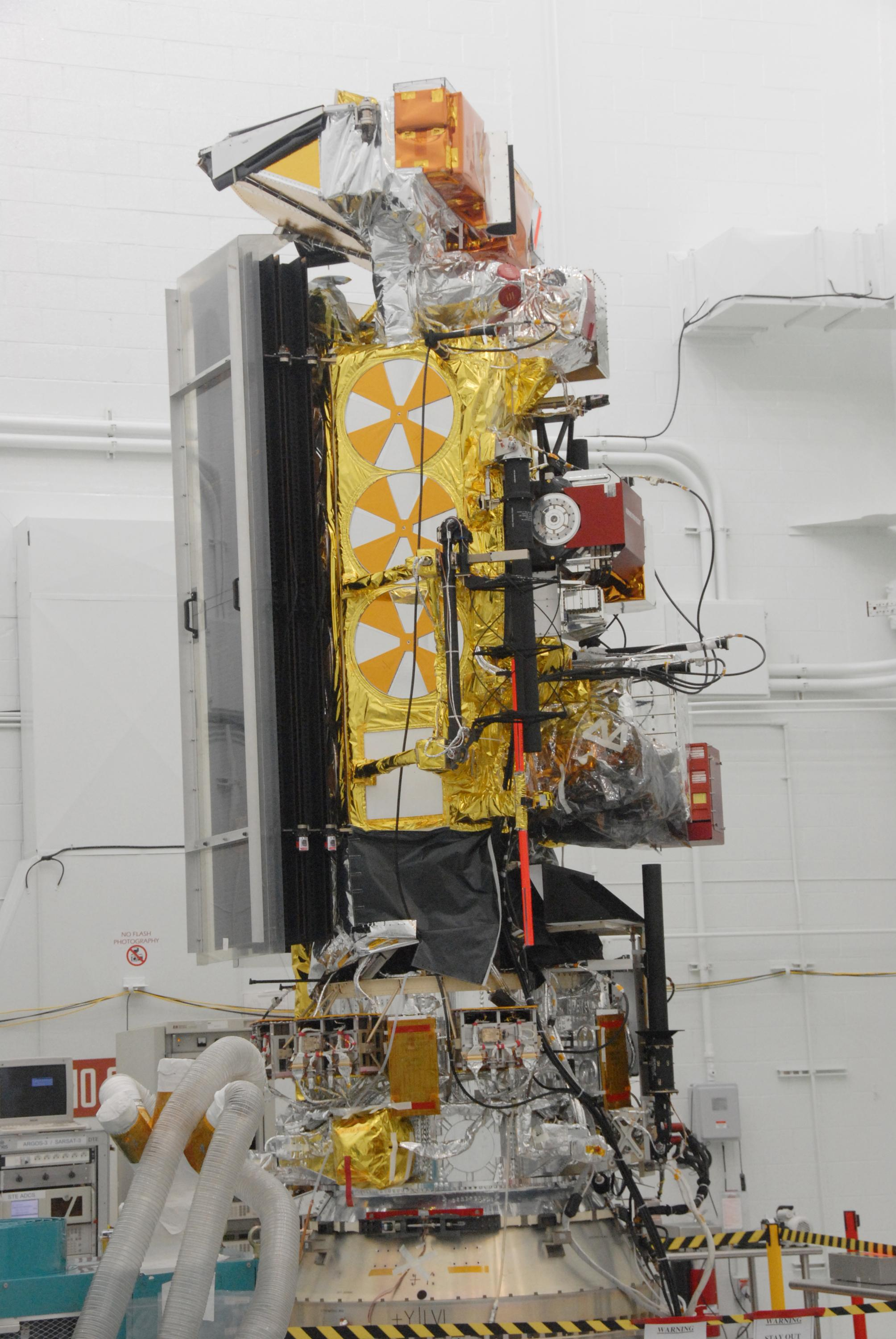 Readied for Flight - The NOAA-N Prime satellite stands in the payload processing facility at Vandenberg Air Force Base in California. NOAA-N Prime is the latest polar-orbiting operational environmental weather satellite developed by NASA for the National Oceanic and Atmospheric Administration.